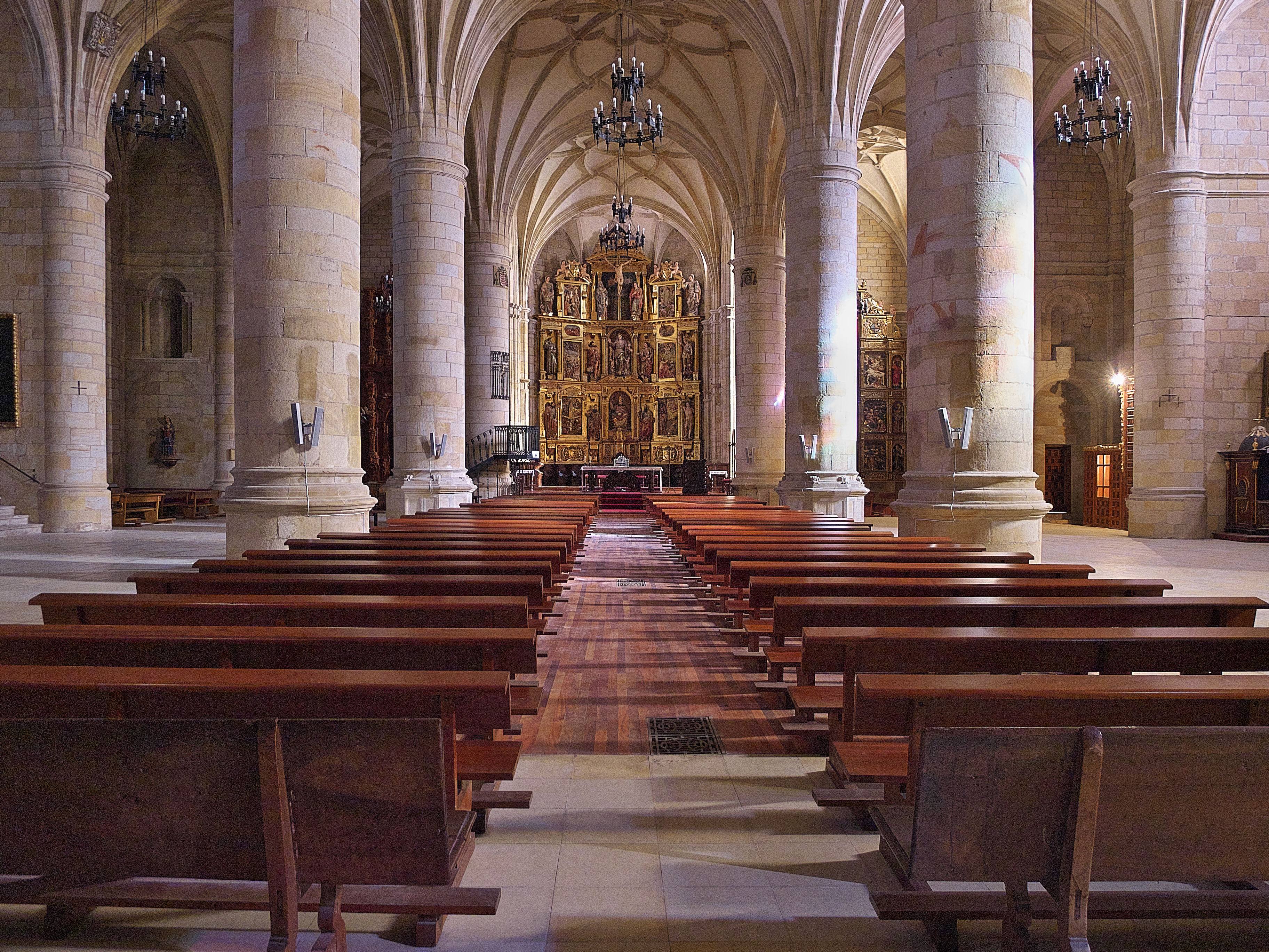 El obispo Pedro Álvarez de Acosta y los hermanos Pérez de Villavid terminan la Colegial (1575)